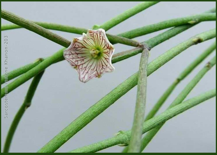 Sarcostemma insigne (syn.Cynanchum), collection de Khanon. Plant — v.2002